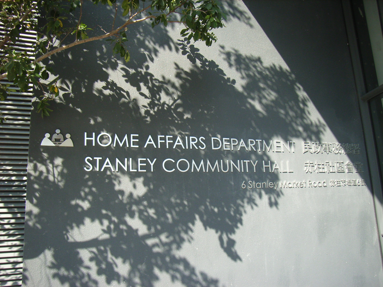 赤柱市政大廈社區會堂, No.6 Stanley Market Road, Hong Kong. User:Twins Stanley 625